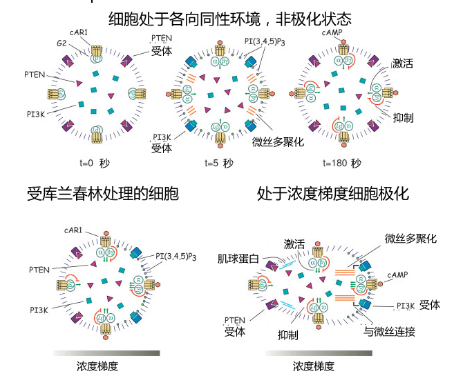 The Polarization of a cell before the cell migration takes place.